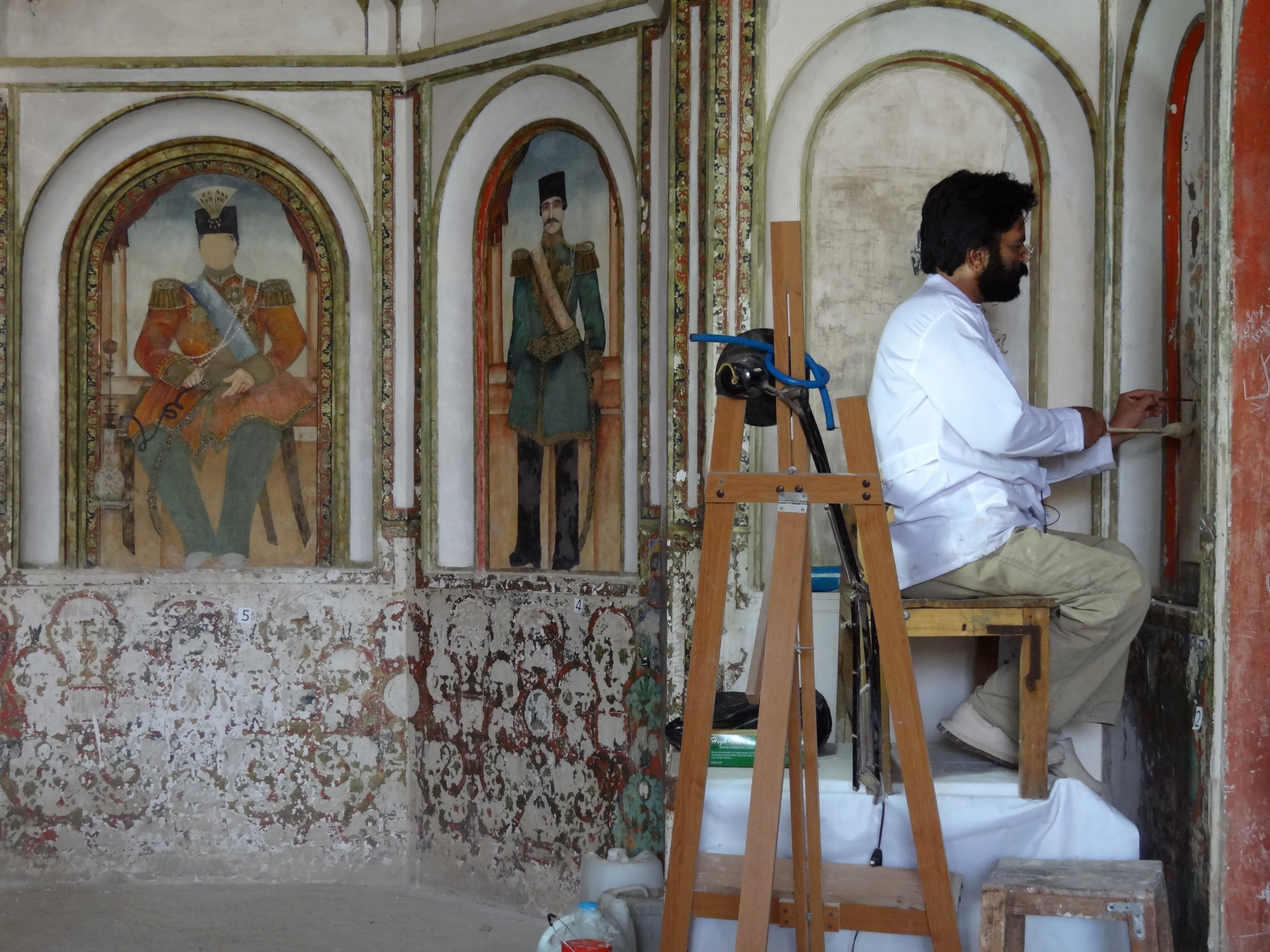 Restorer at Work - Borovjerdi Historical House - Kashan - Central Iran